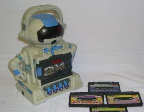 Self made image of Tiger Electronics 2-XL with cassette tapes.